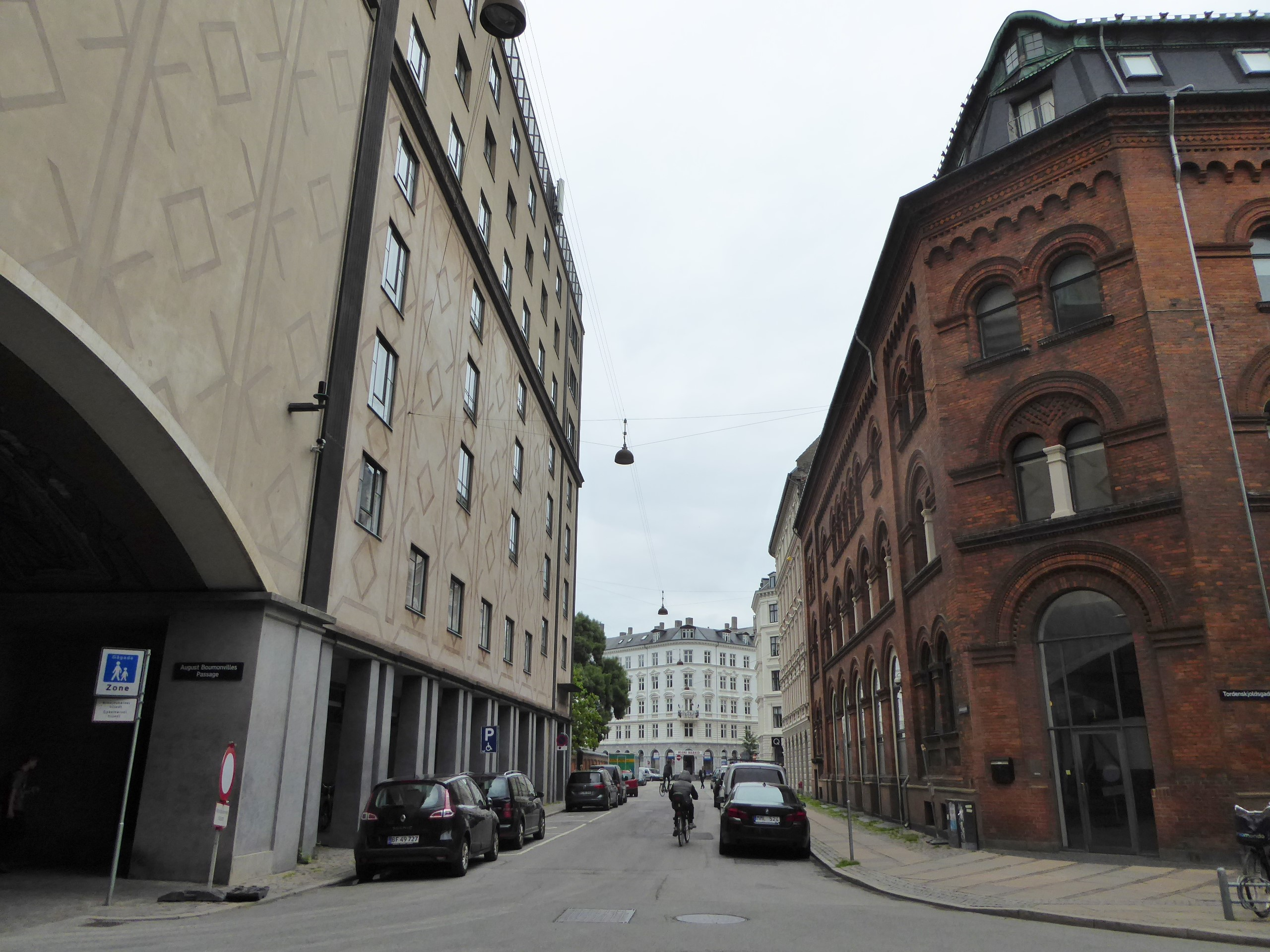 The street Heibergsgade at Tordenskjoldsgade in Indre By in Copenhagen. At the left the building Stærekassen, a part of the Royal Danish Theatre. This part of the street was renamed Harald Landers Gade at 27 March 2018.